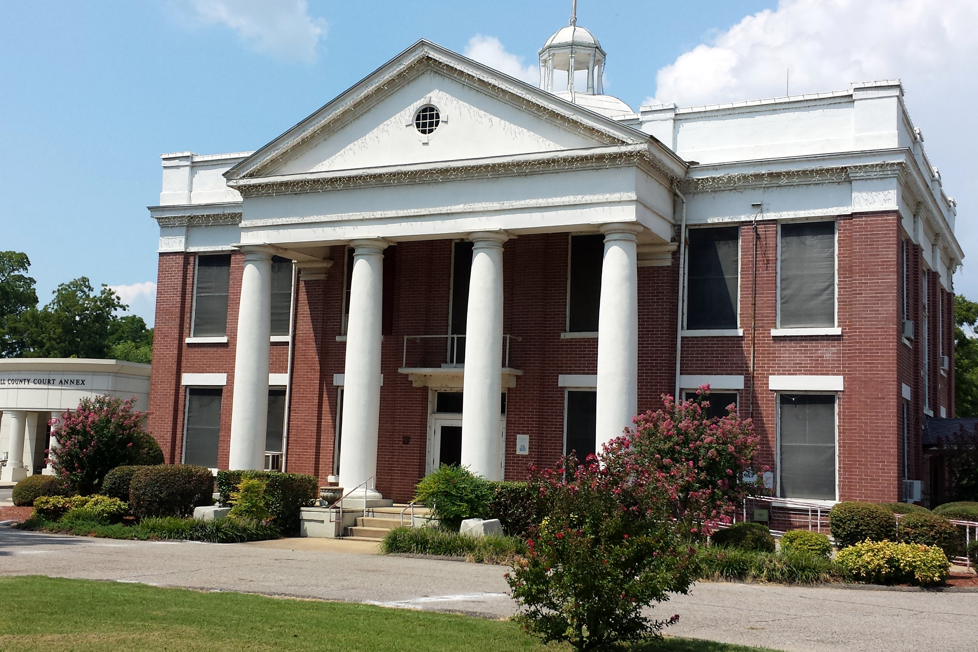 Facade of the Yell County Courthouse, Dardanelle, AR